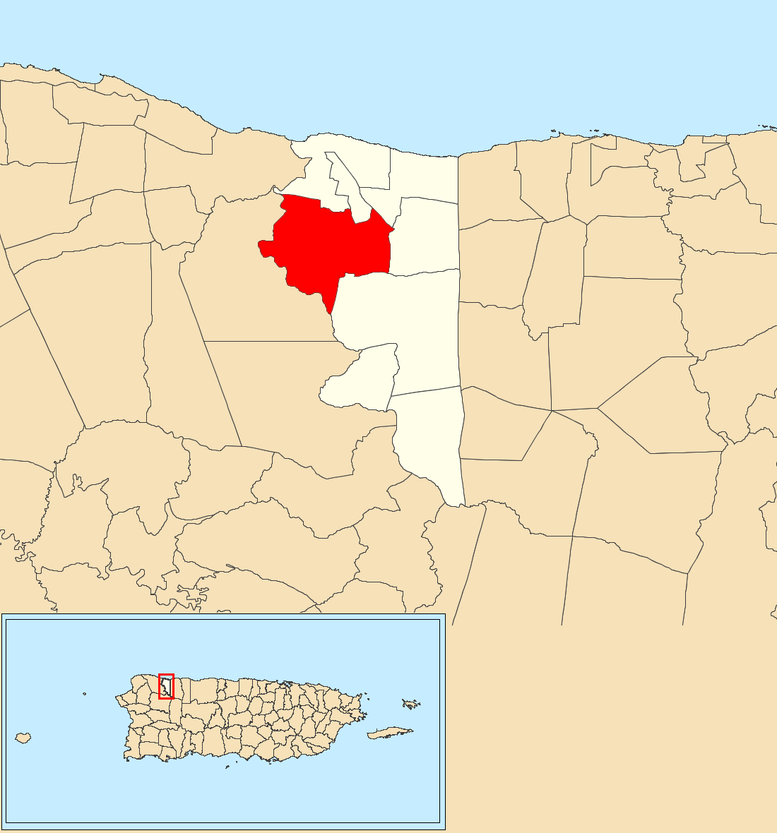 Cacao, Quebradillas, Puerto Rico locator map